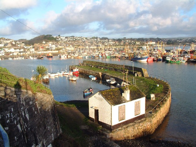 Newlyn Harbour. The tiny old harbour sits within the vast modern fishing harbour with its multicoloured trawlers